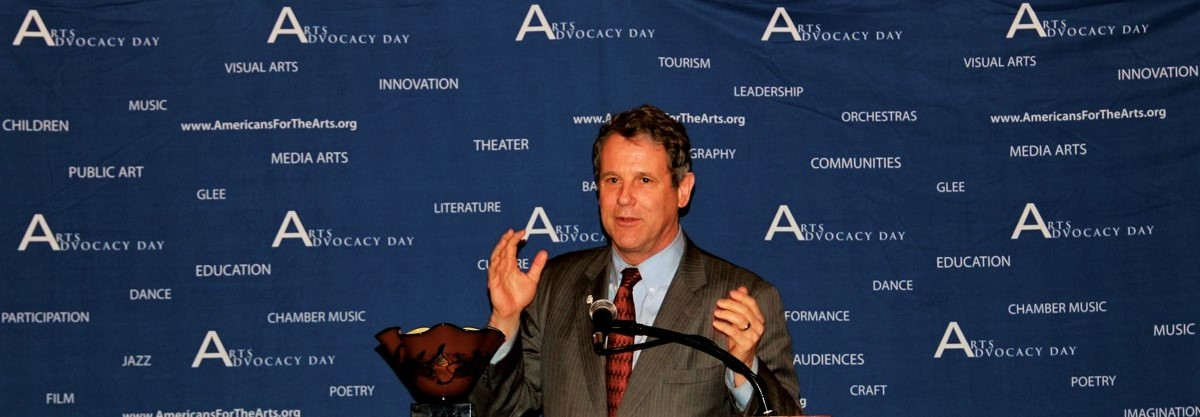 Americans for the Arts